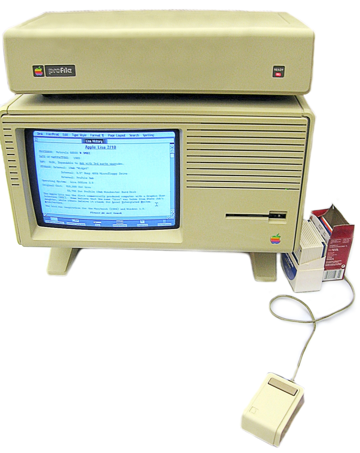 Apple Lisa 2 with Profile HD